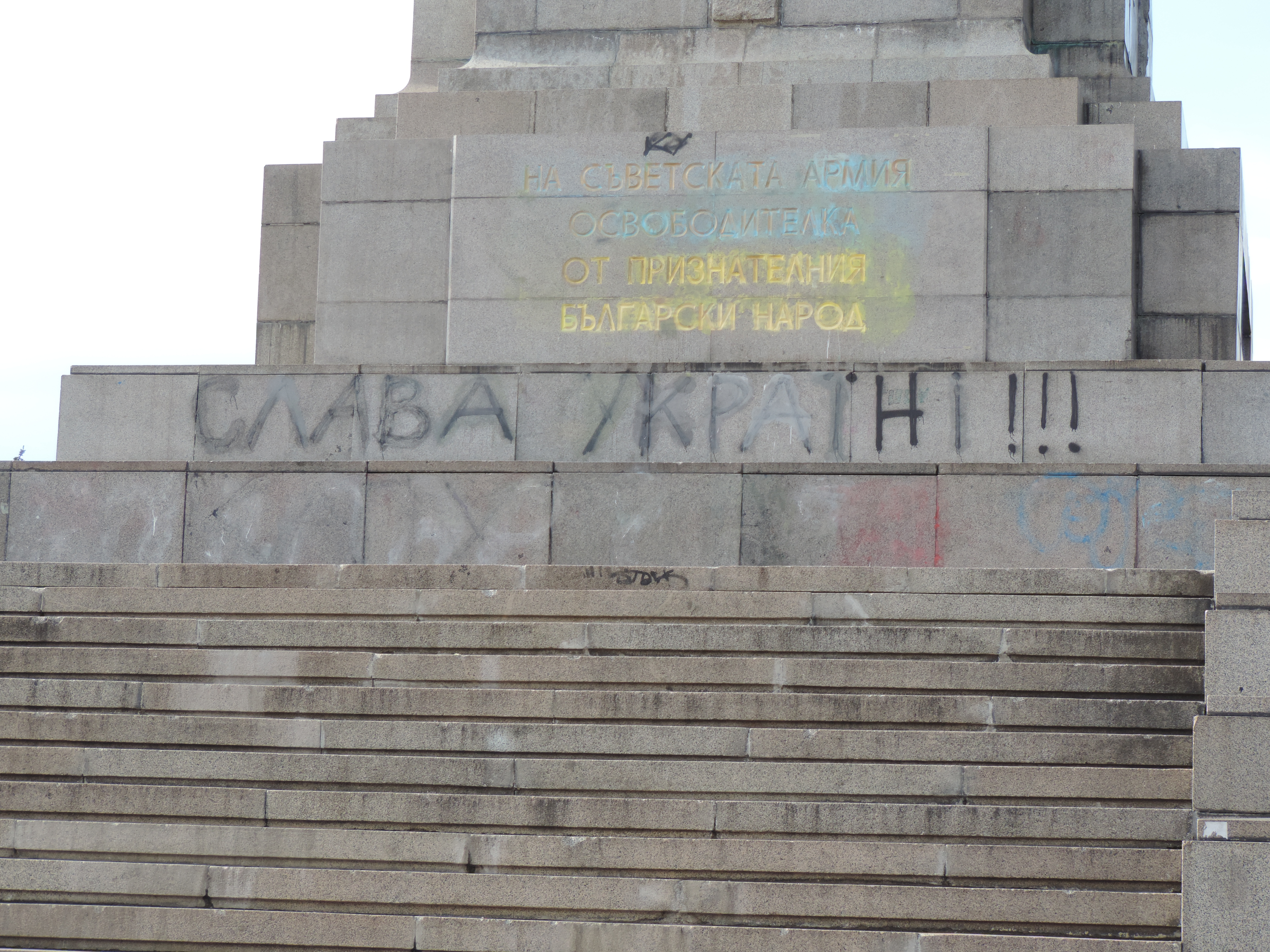 The Monument to the Soviet Army, Sofia, a day after it has been coloured in the colours of Ukrainian national flag and the inscription "Glory to Ukraine".